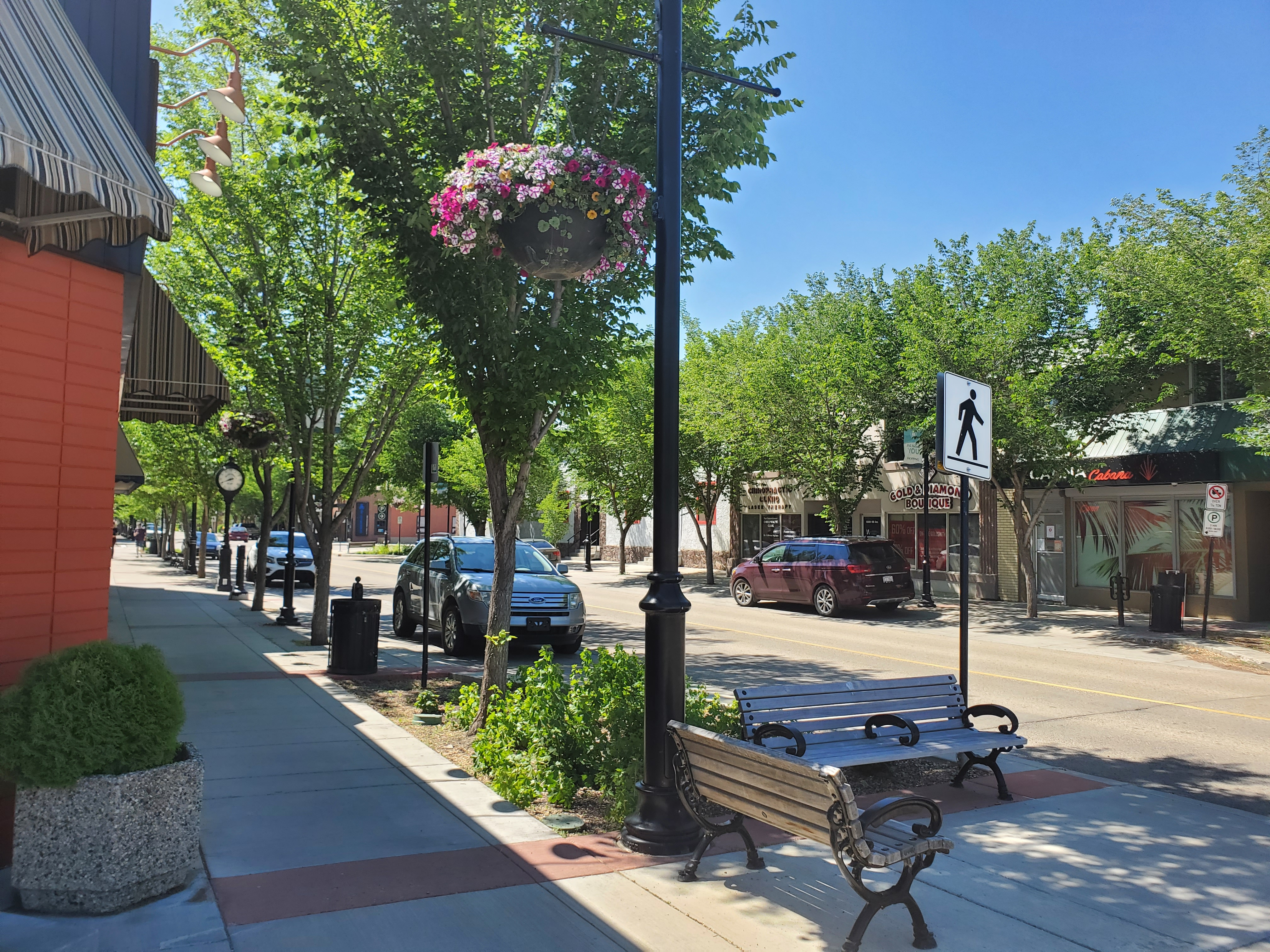 A portion of Fort Saskatchewan's downtown business district